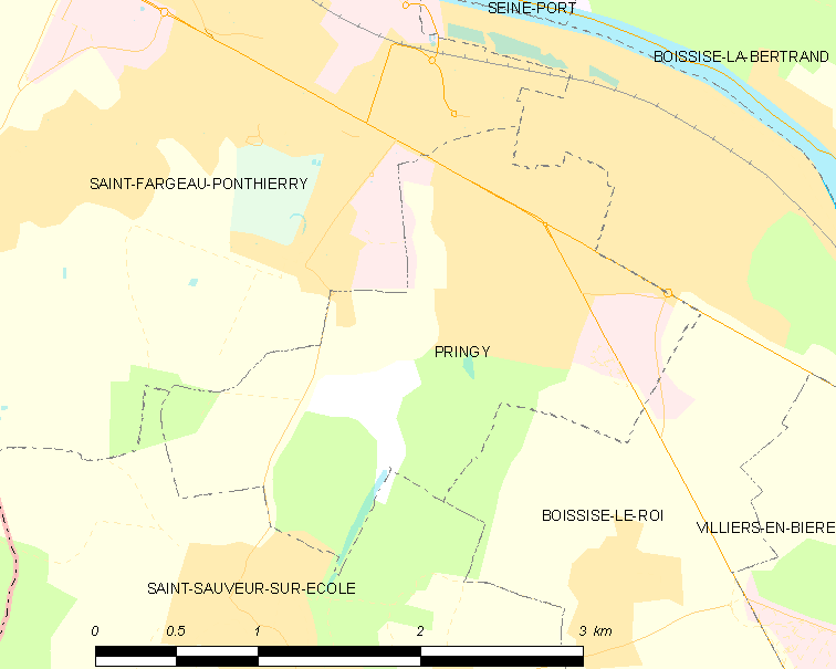 Map of French municipality Pringy